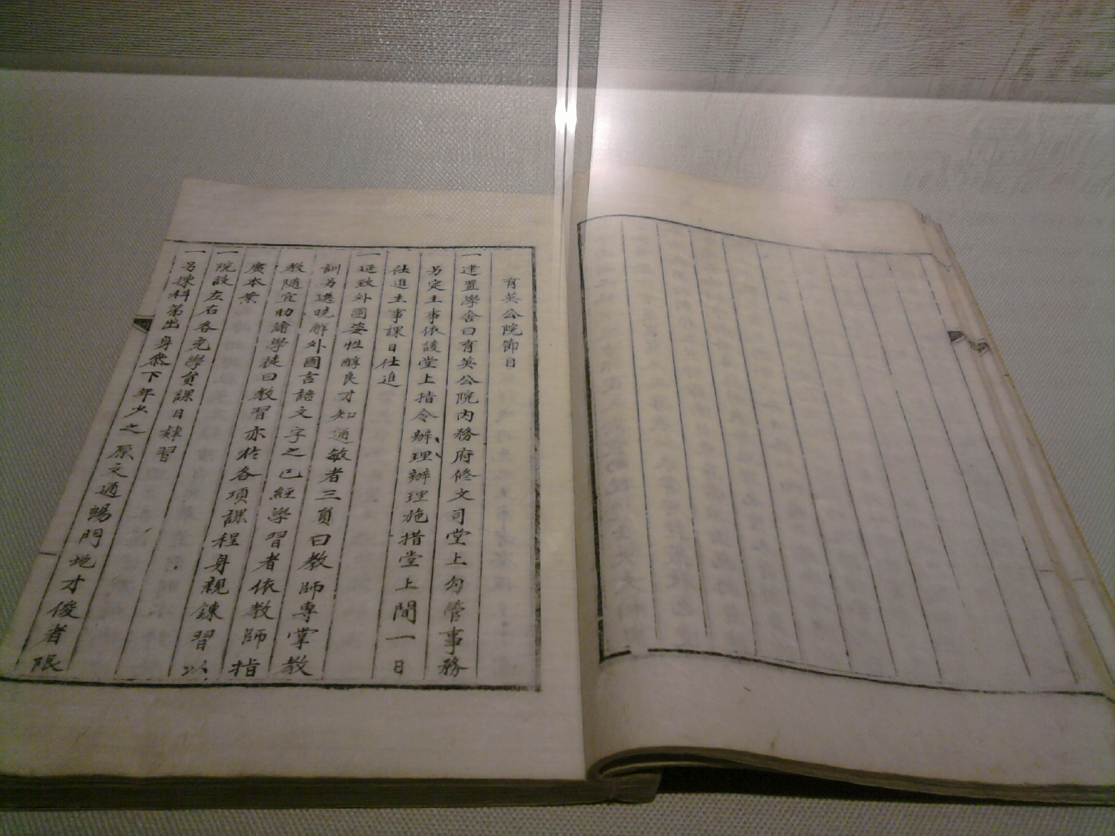 Yuckyeonggongwondeungrock displayed in Seoul National University Kyujanggak Institute for Koreanology Studies